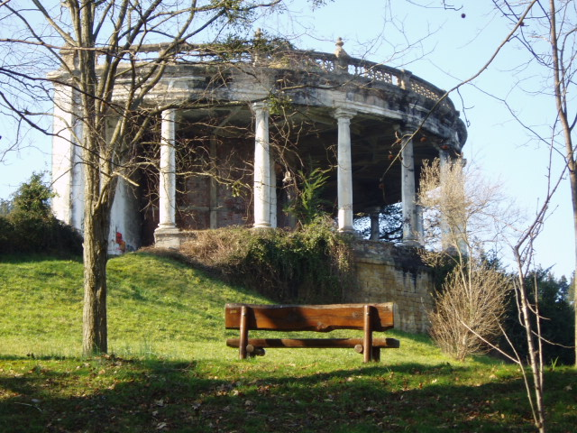 The "Torreon" of Vista Alegre park in Zarautz (Gipuzkoa).